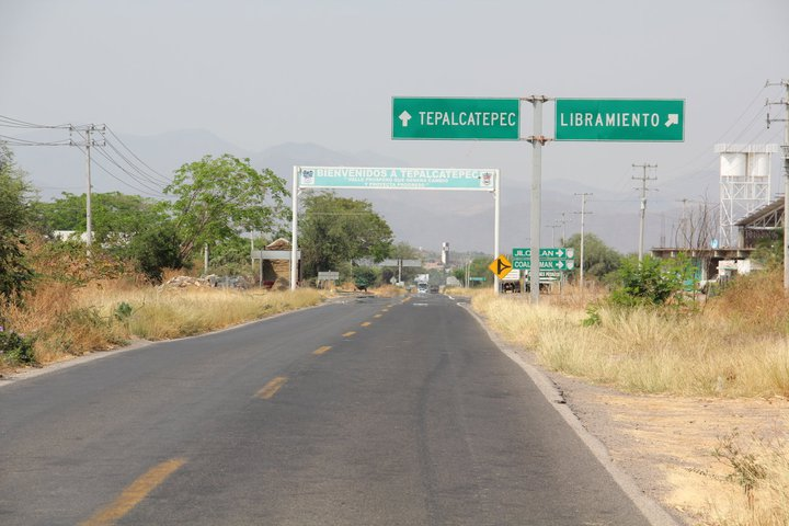 es la entrada a tepalcatepec